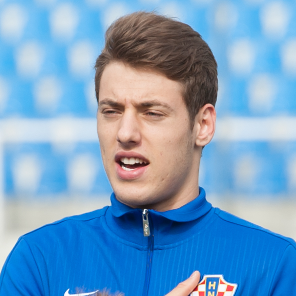 European Under-19 Championships 2015 Elite Round, Austria vs. Croatia, 28/03/2015 Wiener Neustadt, Lower Austria